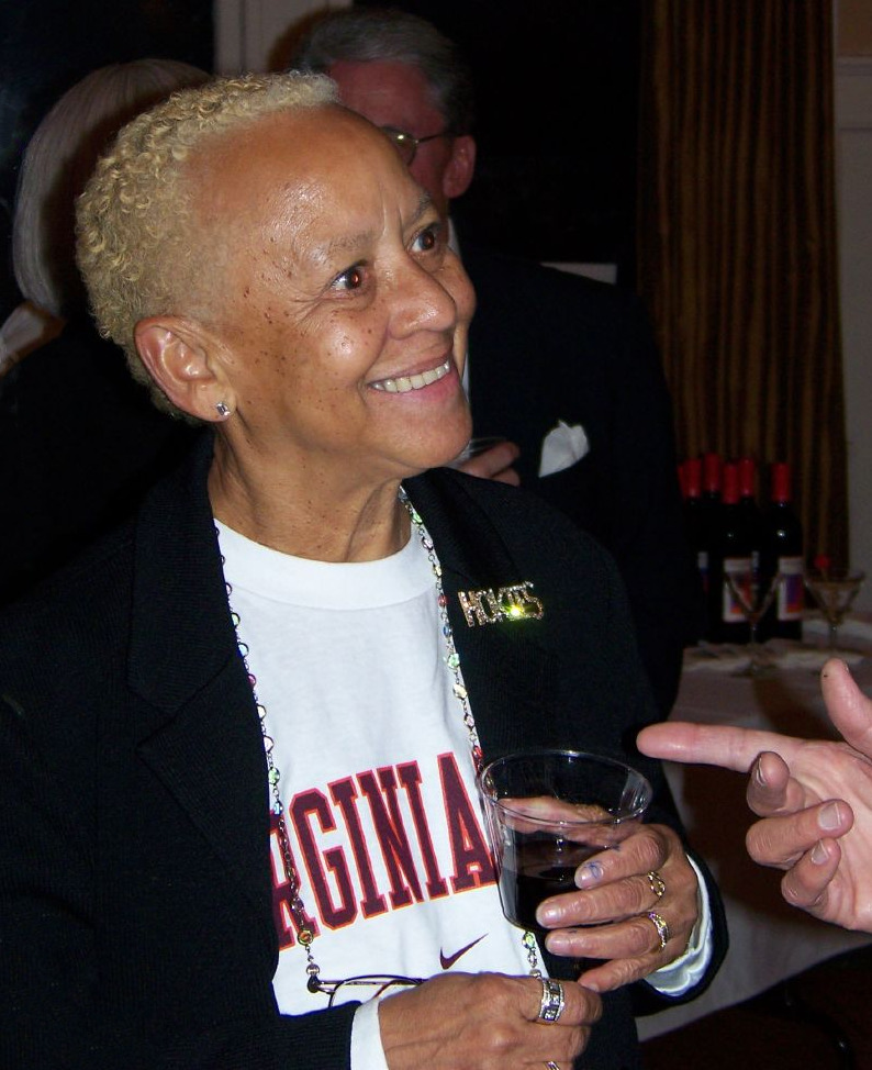 Nikki Giovanni. Pictures from the Arkansas Literacy Festival's Martini Reception with the Authors. The event was part of the 2007 Festival and held at the Junior League of Little Rock Headquarters on April 20, 2007.Nikki Giovanni @ Arkansas Literary Festival's Martini Reception with the Authors